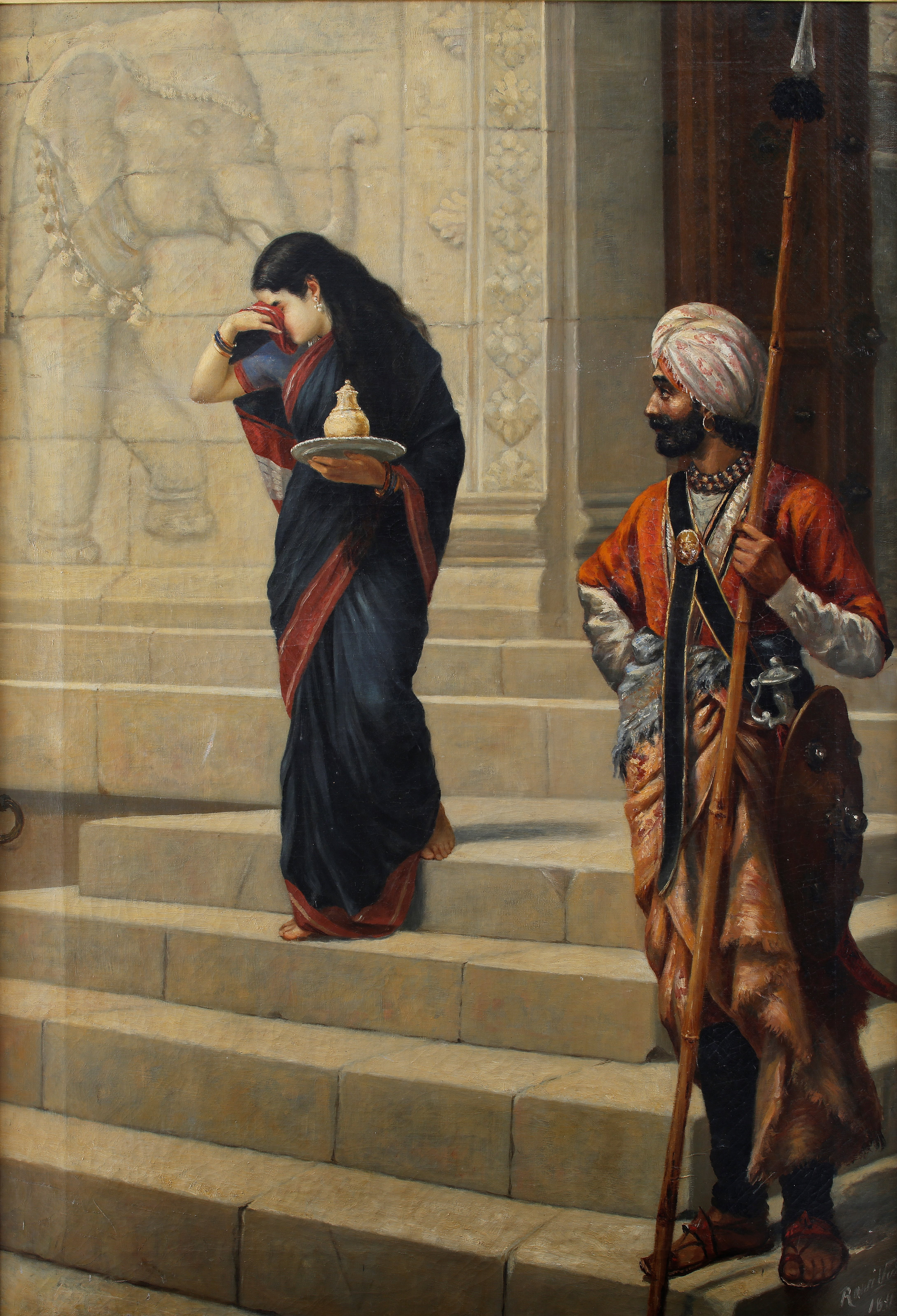 Draupadi disguised as Sairandhri going to the court of Keechaka carrying milk and honey.